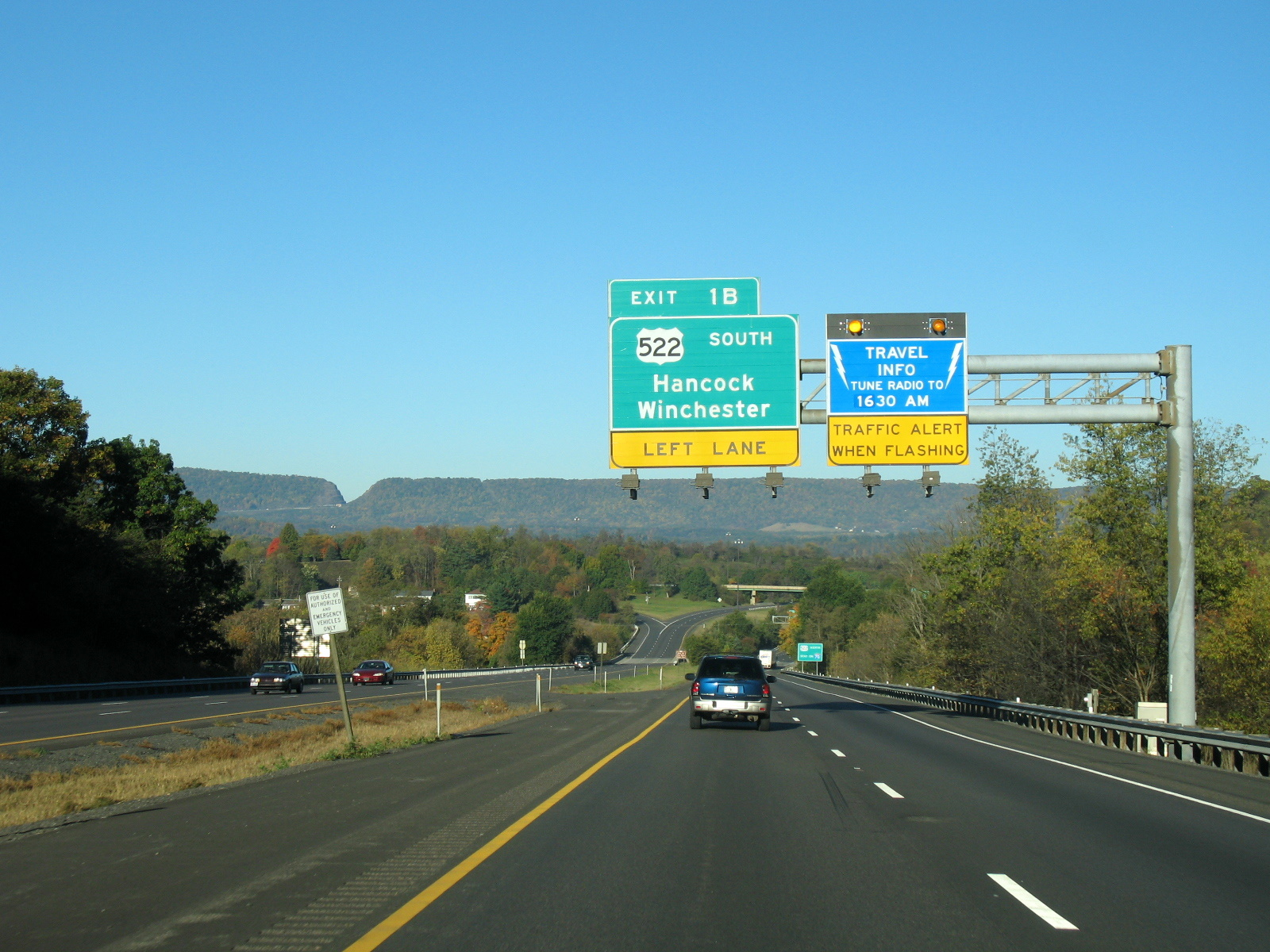 Interstate 70 westbound approaching the Pennsylvania state line, with Sideling Hill in the distance, where Interstate 68 cuts through the mountain at 1,269 feet.